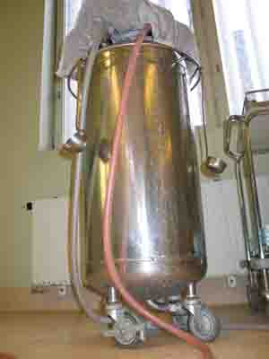 Container_containing_embalming_fluid